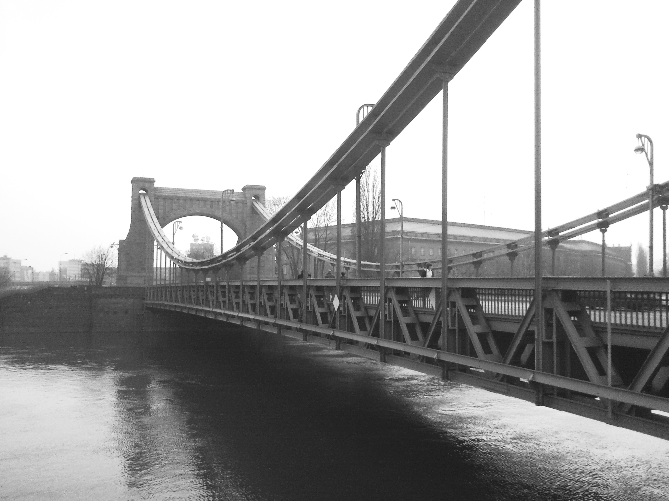 The Grunwaldzki Bridge in Wrocław